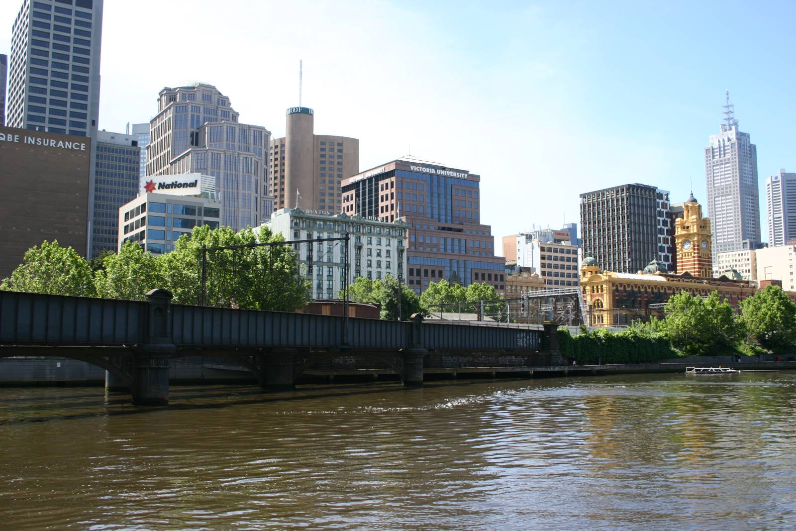 Sandridge Bridge and Flinders Street Station from Southbank.